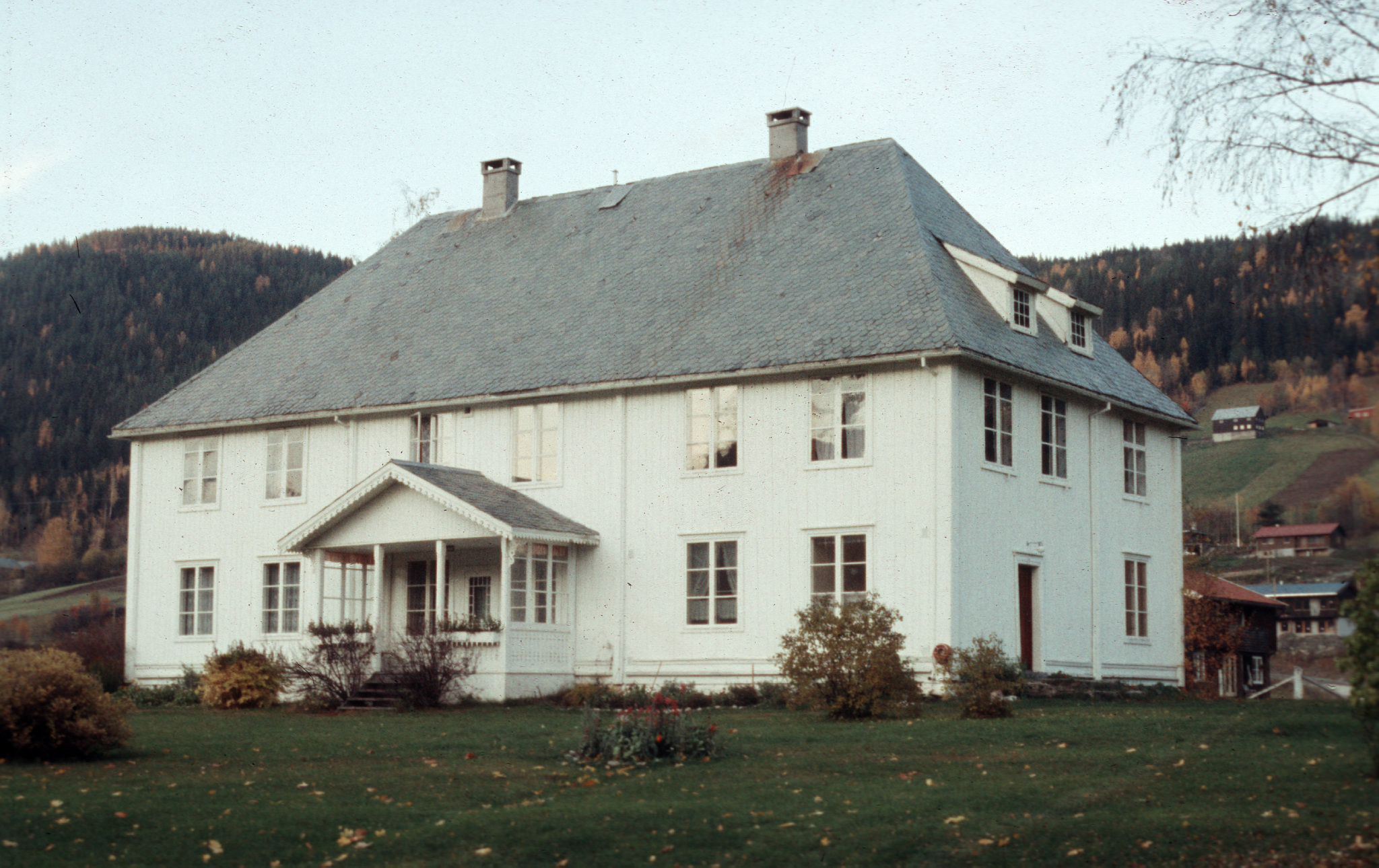 Hovedbygningen ved Sør-Aurdal prestegård. Foto: Ina Backer. Fra Riksantikvarens Kulturminnebilder.no.